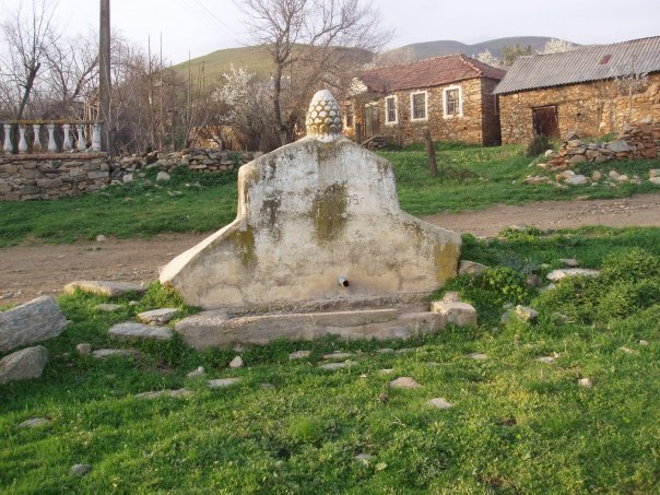 Crnobuki cesma